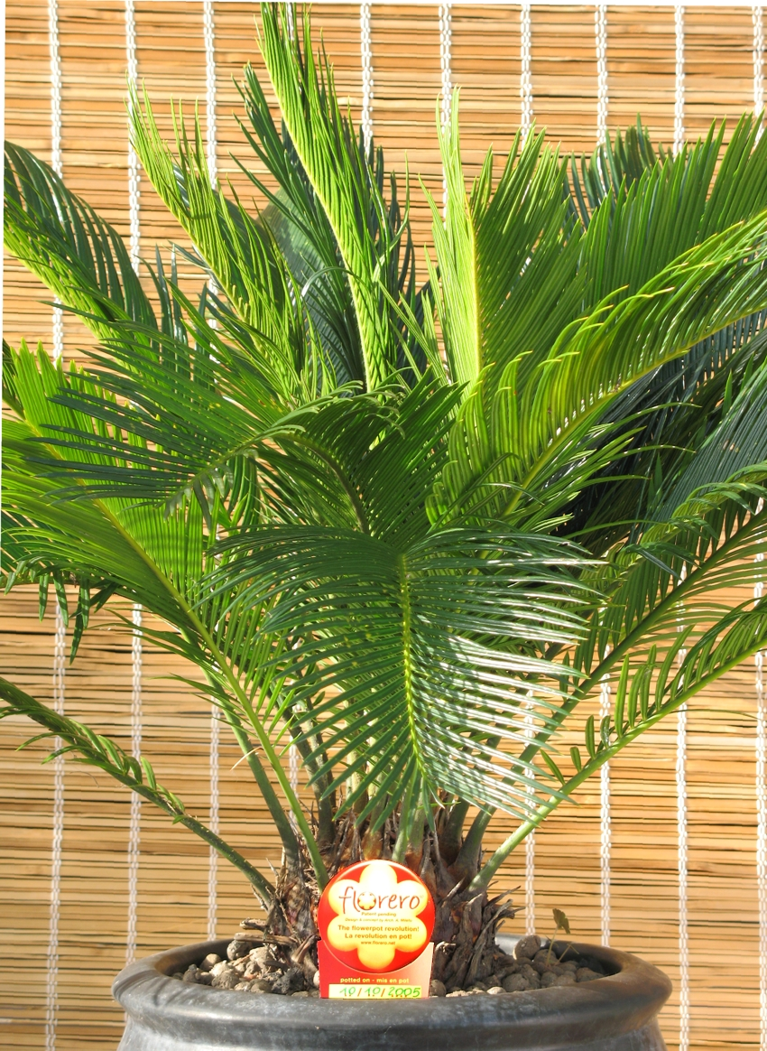 Cycas revoluta in clay flowerpot equipped by Florero®